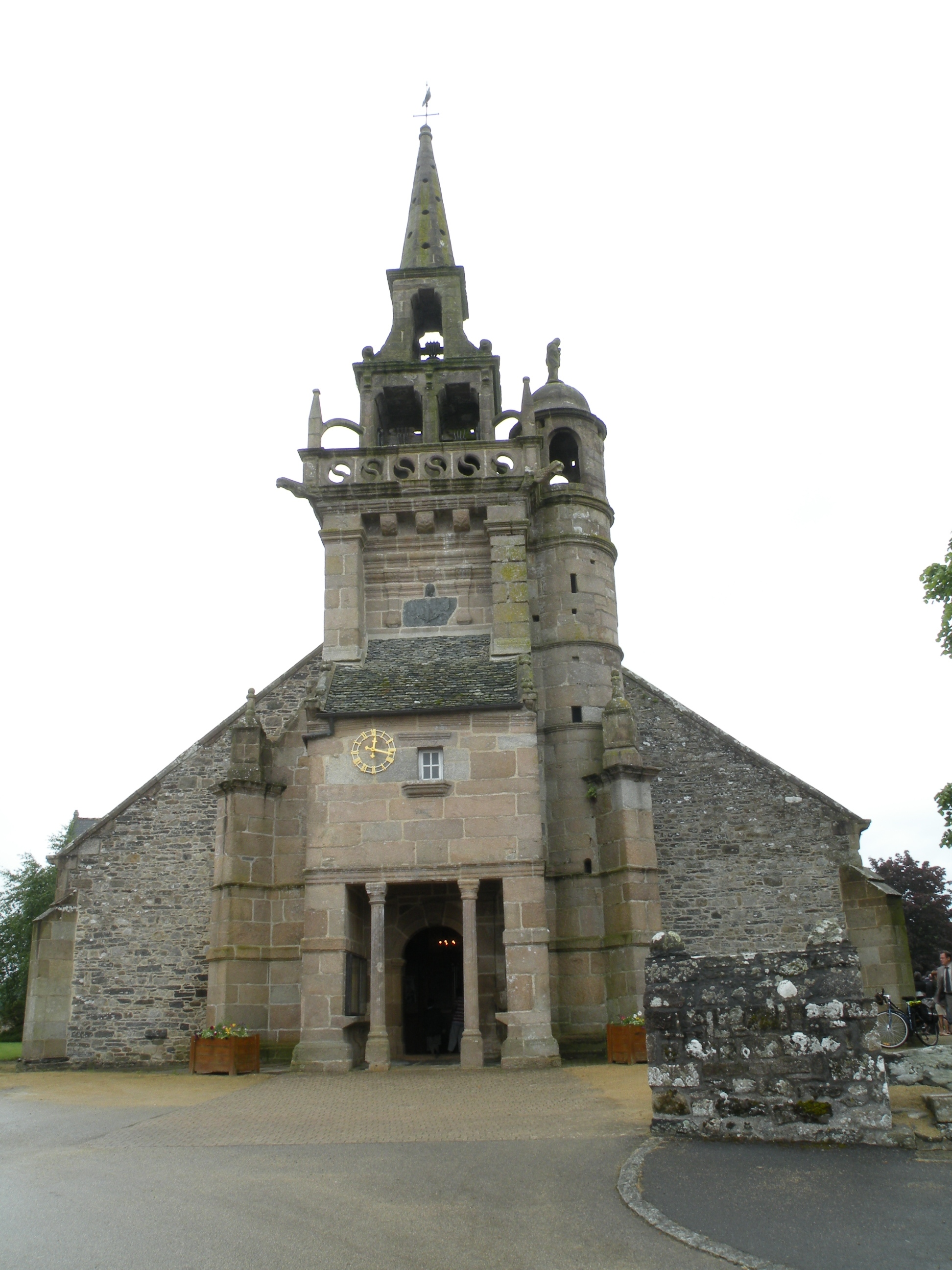 Church of Plouezoc'h.